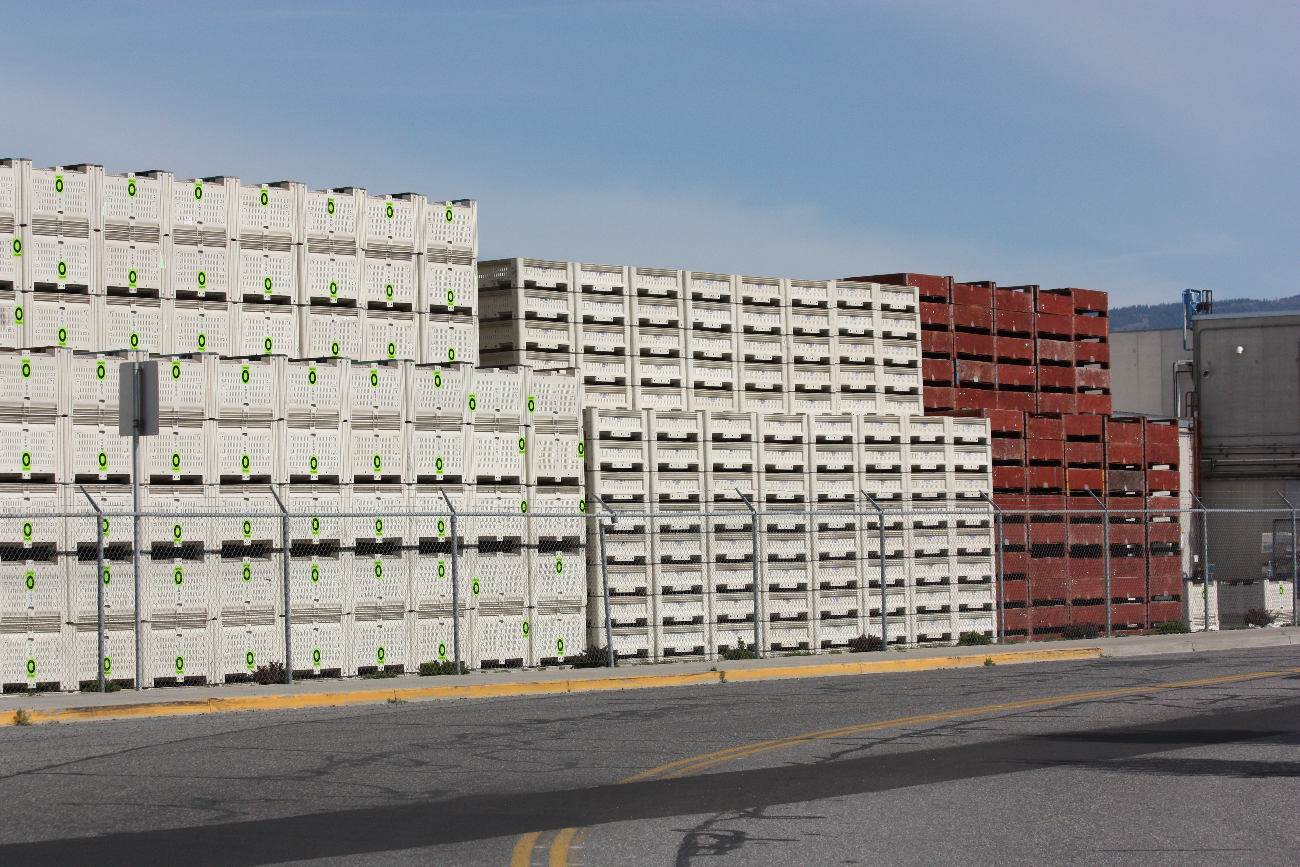 Fruit field bin stacked 8 to 13 high Viewpoint location: Hawley Street entrance, Wenatchee Confluence State Park Viewpoint elevation: 203 meter (666 ft) View direction: South-southeast Location source: Garmin GPSmap 60CSx Location Datum: WGS84